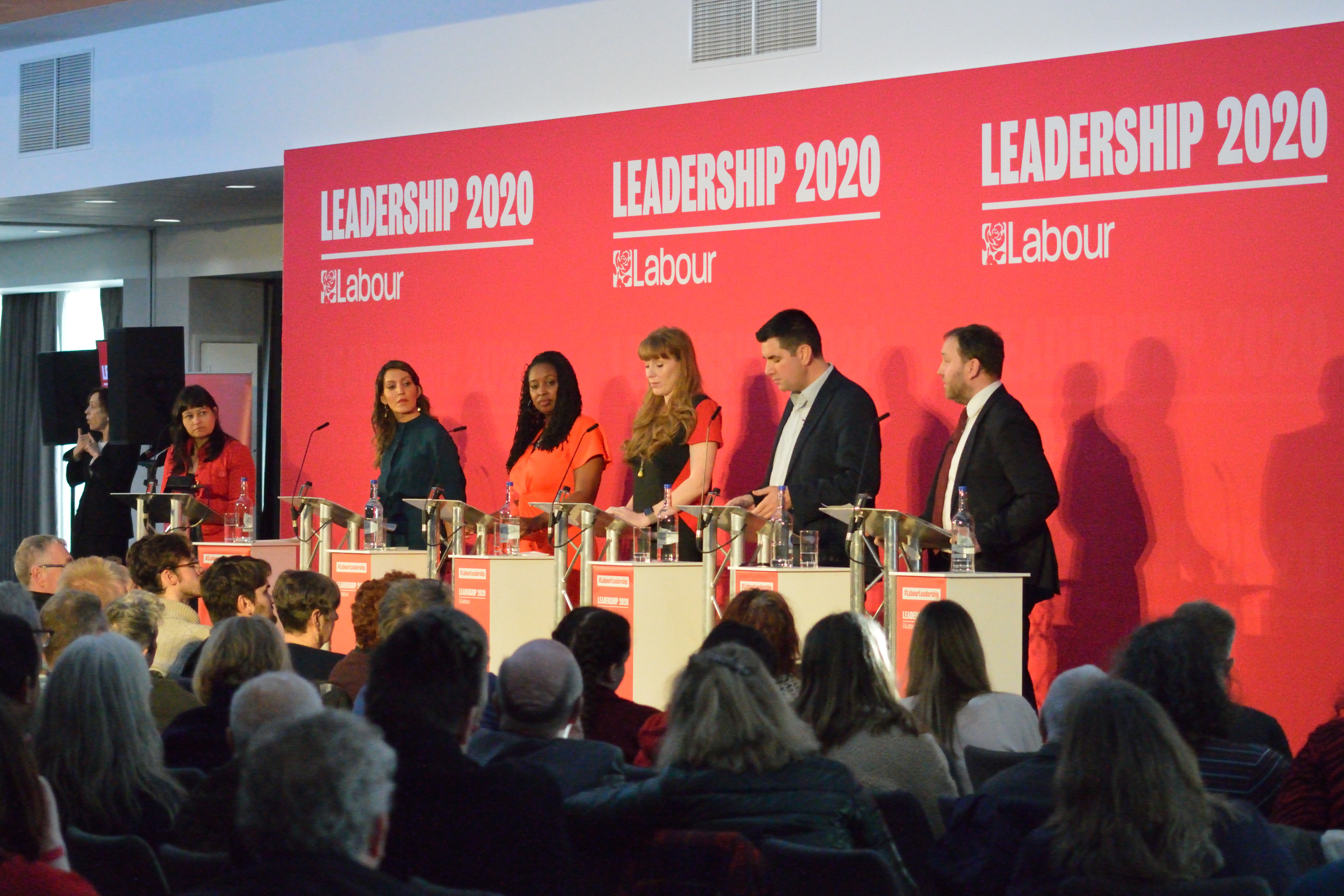 2020 Labour Party deputy leadership election hustings in Bristol on the afternoon of Saturday 1 February 2020, in the Ashton Gate Stadium Lansdown Stand. From left to right people on the platform are moderator Doina Cornell(Leader of Stroud District Council), and candidates Rosena Allin-Khan, Dawn Butler, Angela Rayner, Richard Burgon, Ian Murray.